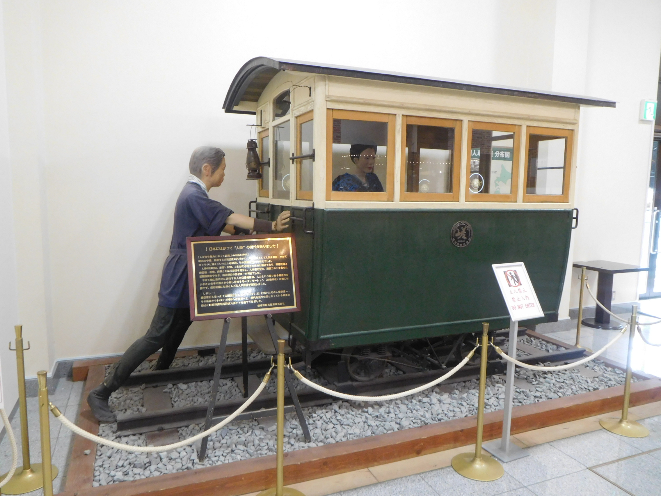 Torokko Saga Station, Handcar tramway.